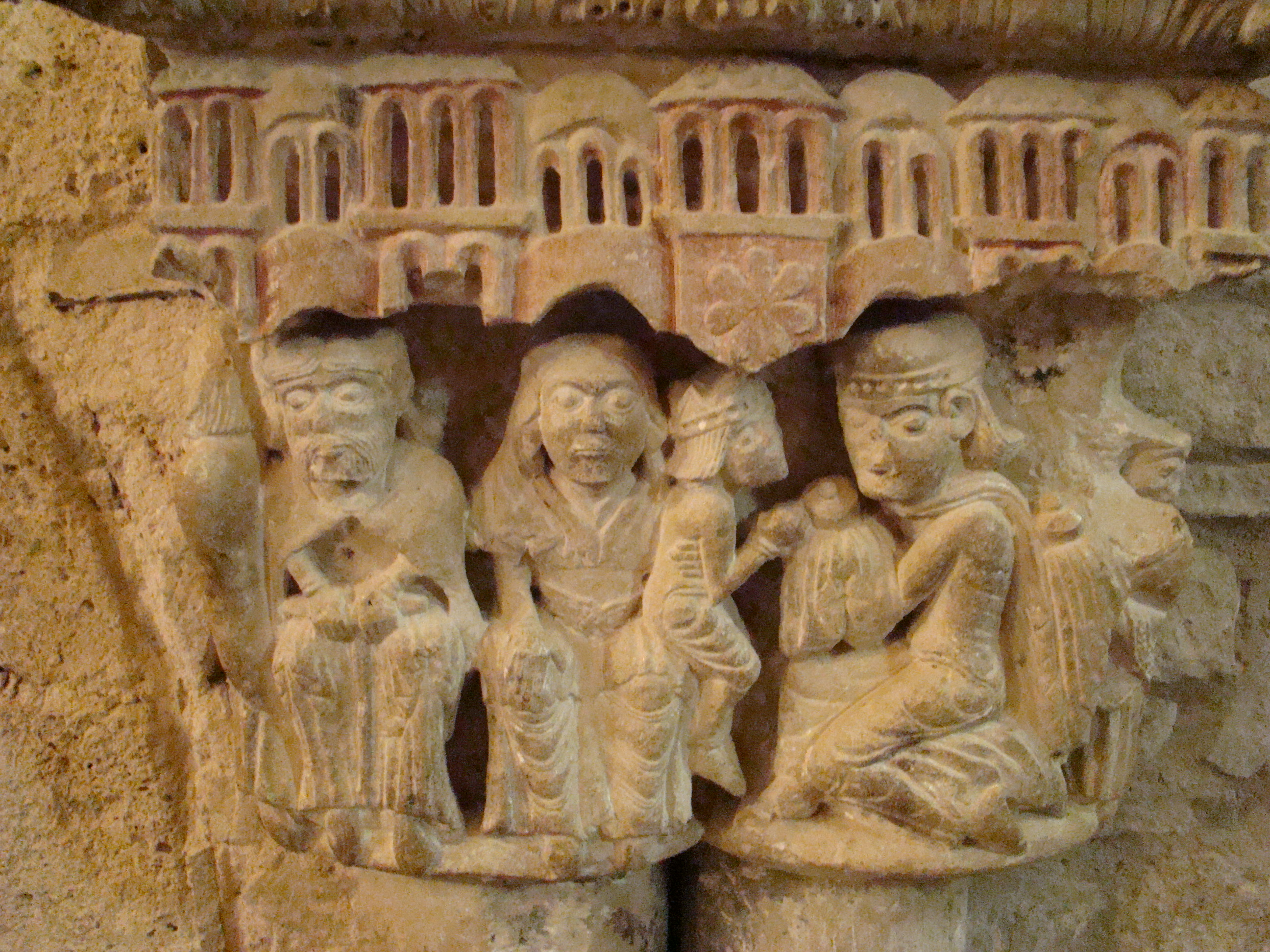 Romanesque capital showing the adoration of the Magi in the municipality of Piasca, Cantabria (Spain).